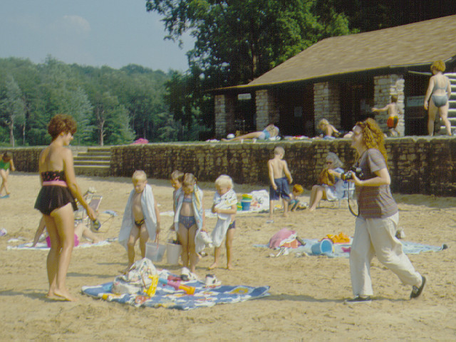 Beach at Parker Dam State Park in Clearfield County, Pennsylvania, United States